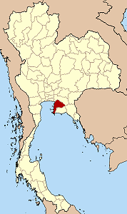 Map of Thailand highlighting Chonburi province